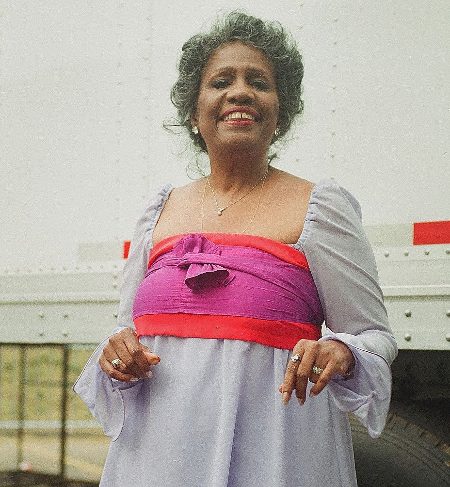 July 21, 2000 " Artscape " Baltimore M.D.